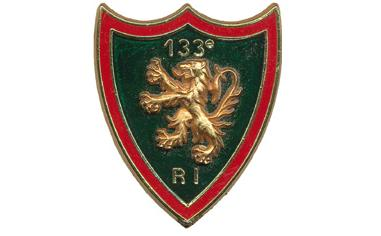 Regimental badge of the 133rd Infantry Regiment Divisional (France).